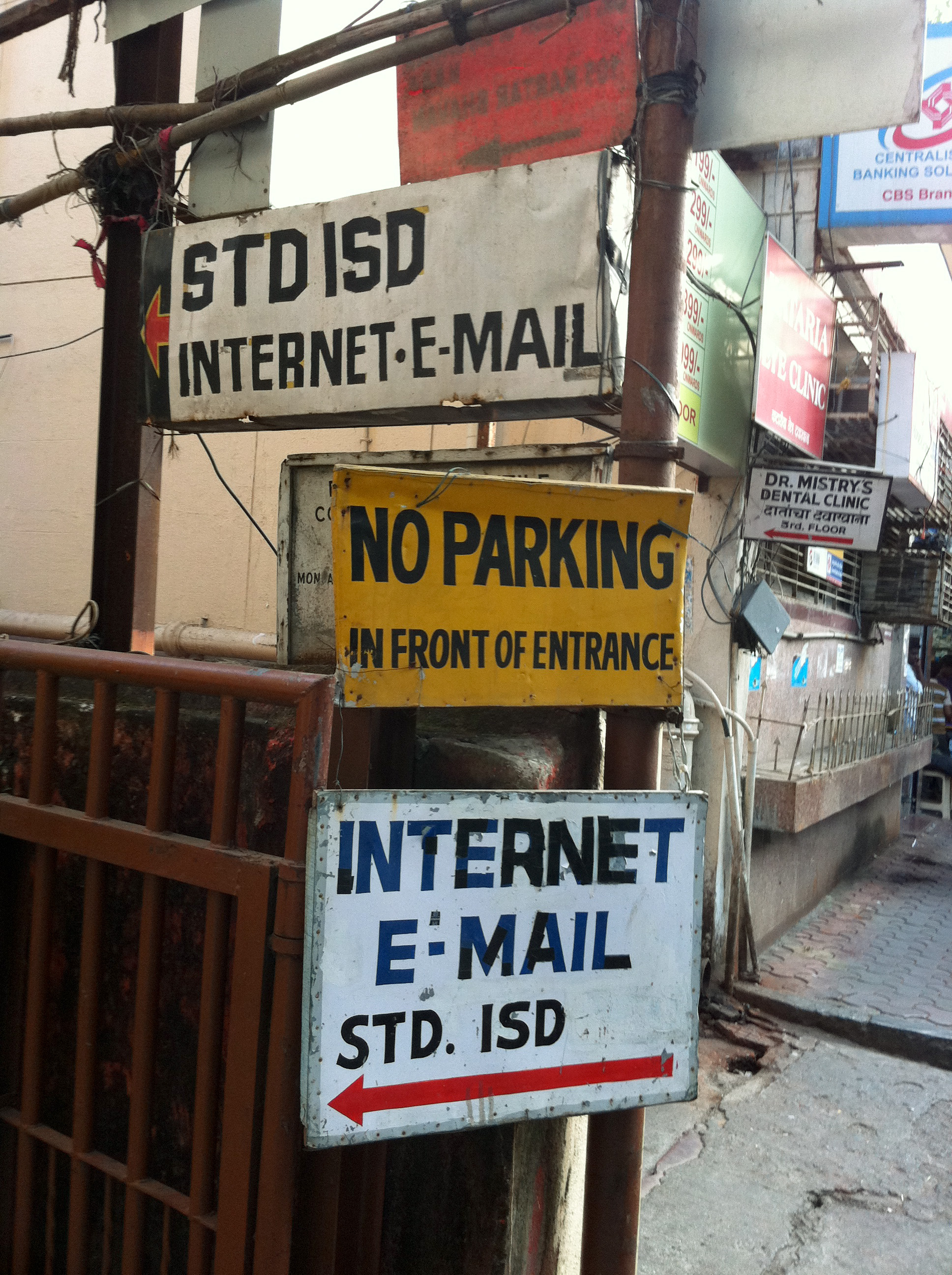 Mumbai Street internet Cafe signs